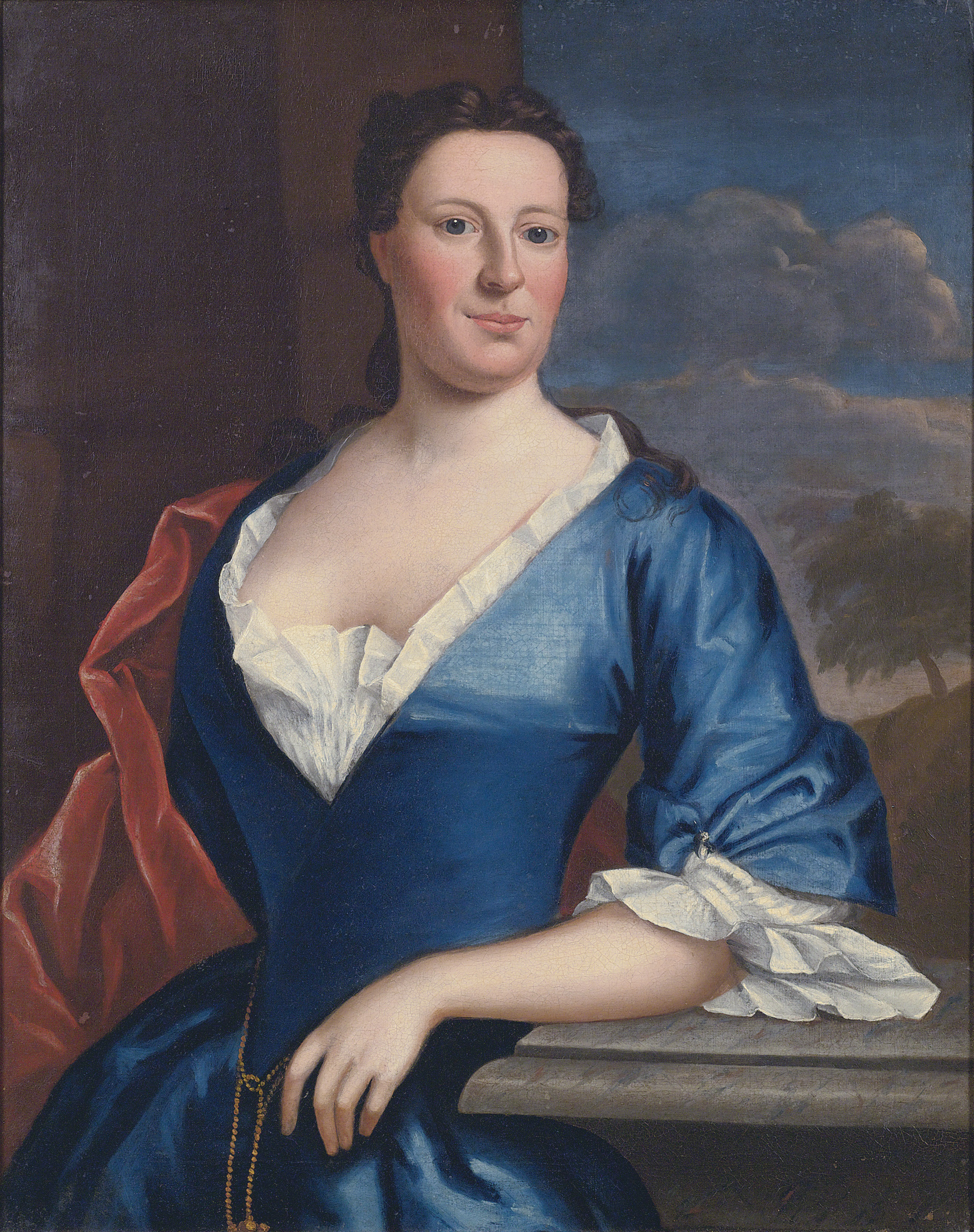 Elizabeth Turbutt, Mrs. Tench Francis (March 17, 1708 - Philadelphia, May 1, 1800) daughter of Foster and Bridgett Turbutt oil on canvas 36 x 28.5 inch